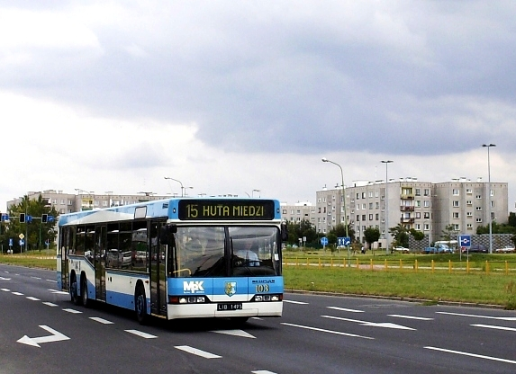 Neoplan N4020td (#103) bus in Legnica, Poland. MPK Legnica company. Year built 1998.